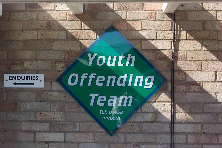 Picture of the YOT logo, taken by myself.